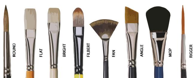 Author: Vinegartom Image created using Adobe Photoshop CS2.